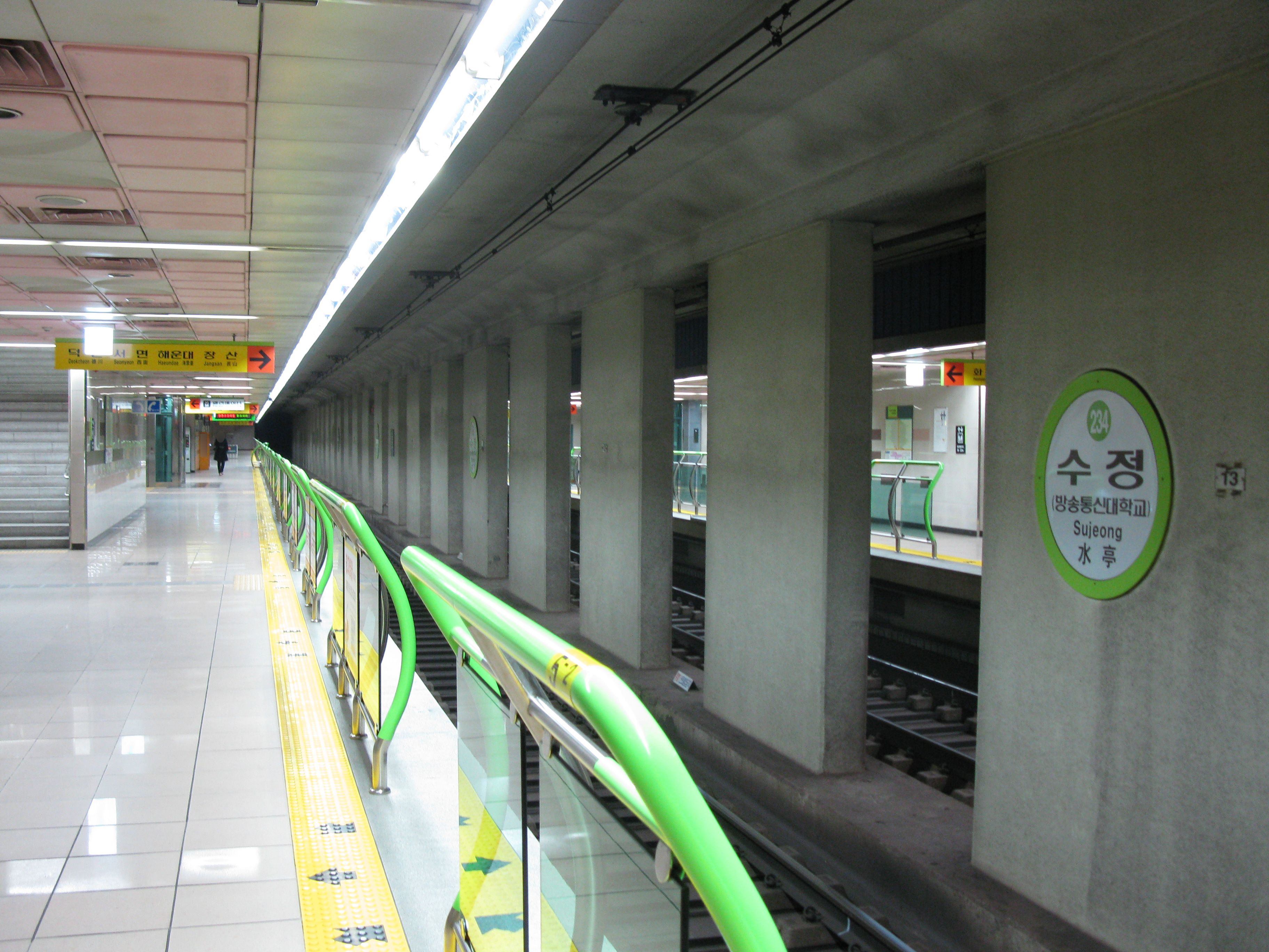 Sujeong Station platform (Busan Subway Line 2)